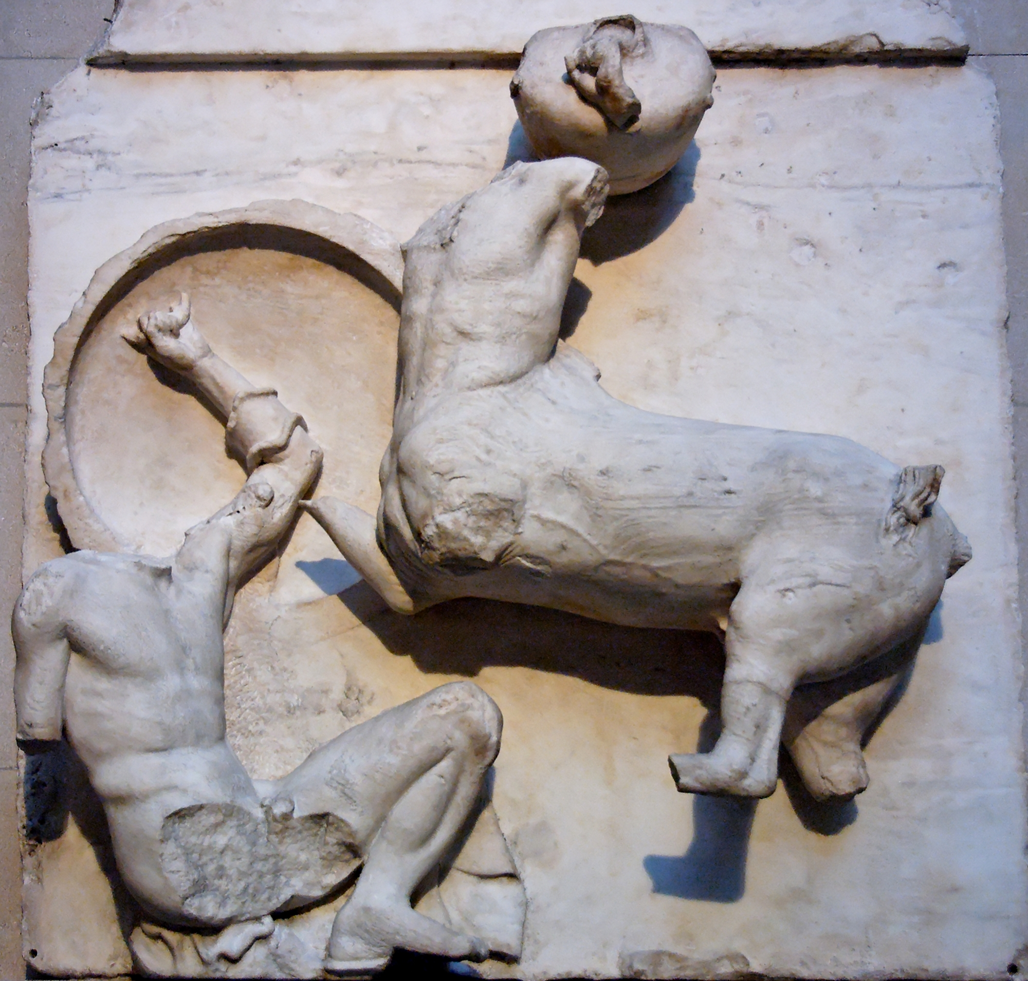 Lapith fighting a centaur. South Metope 4, Parthenon, ca. 447–433 BC.